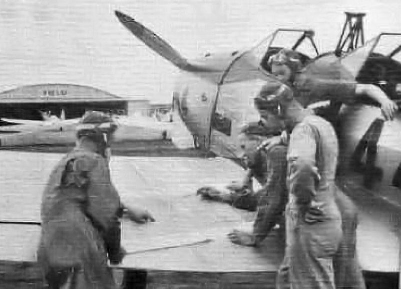 Aviation Cadets with Instructor Pilot